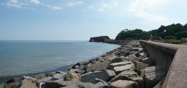 Dawlish Warren : Rip Rap & Coastal Scenery